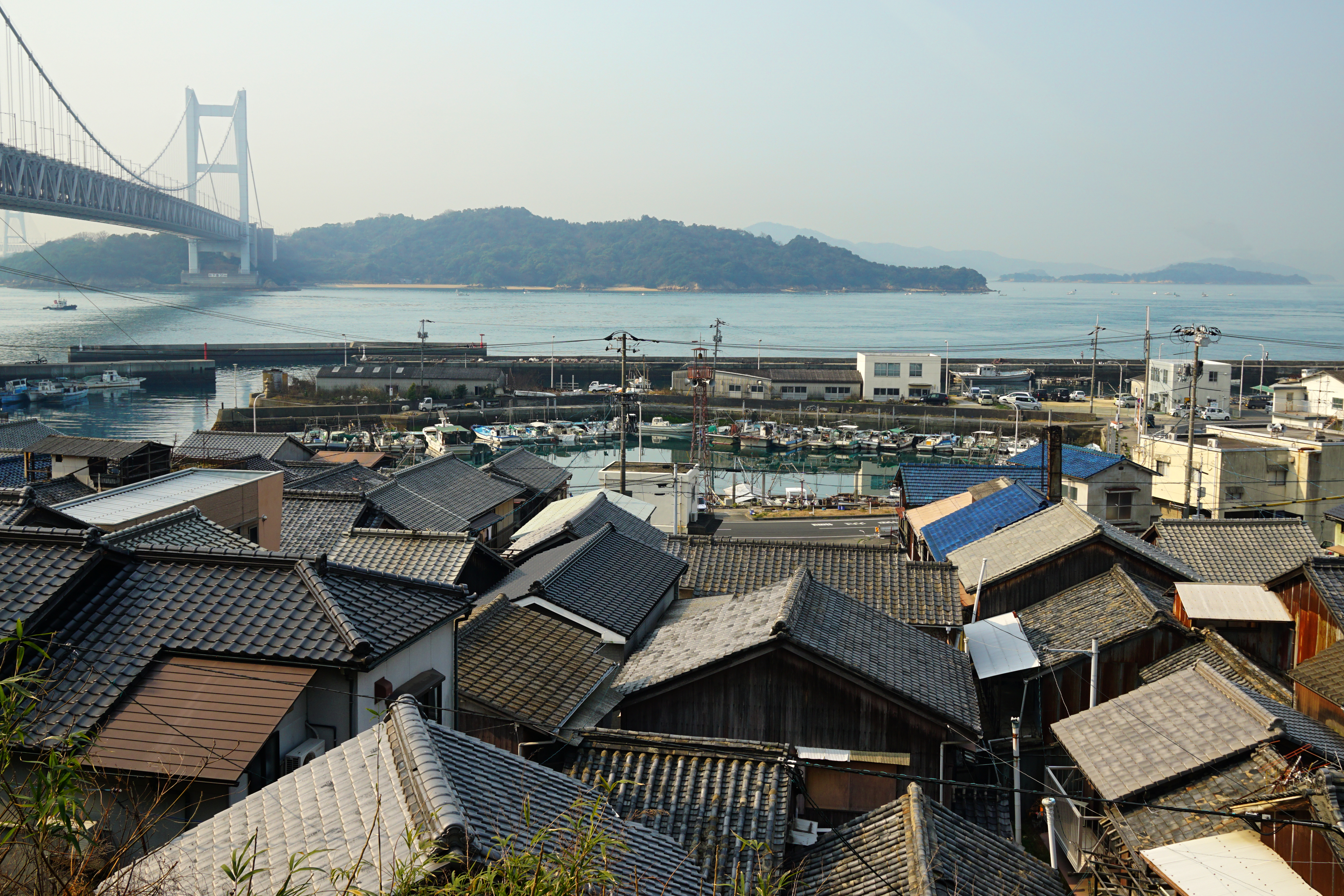 Tatsuchinouranimashimasu-jinja in Shimotsui, Kurashiki, Okayama prefecture, Japan